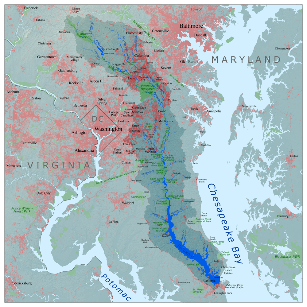 Map of the Patuxent River drainage basin made using data from the National Map.